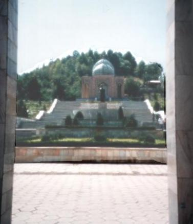 Mausoleum of Babur in Andijan, Uzbekistan